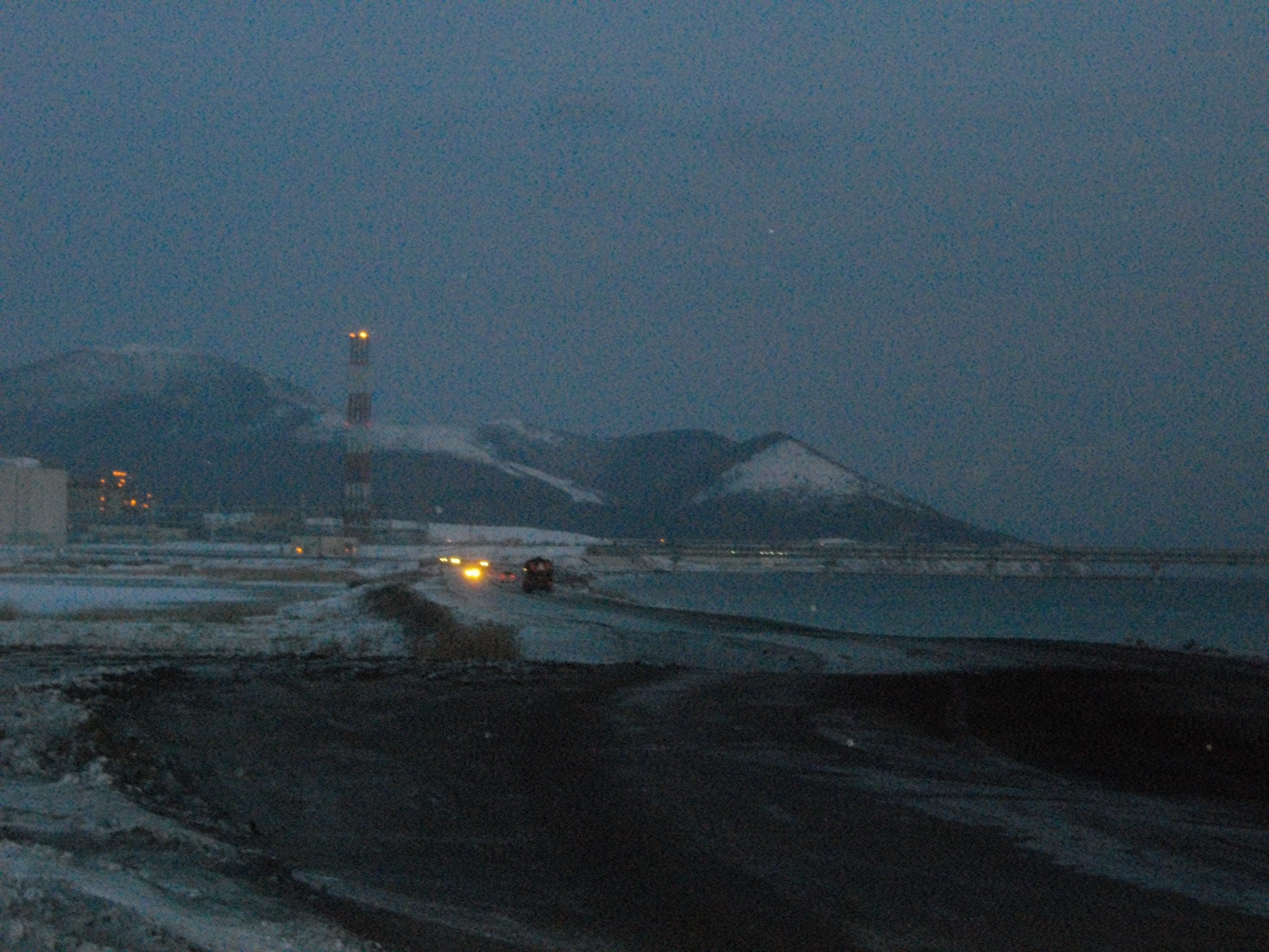 Coast near Korsakov and LNG plant